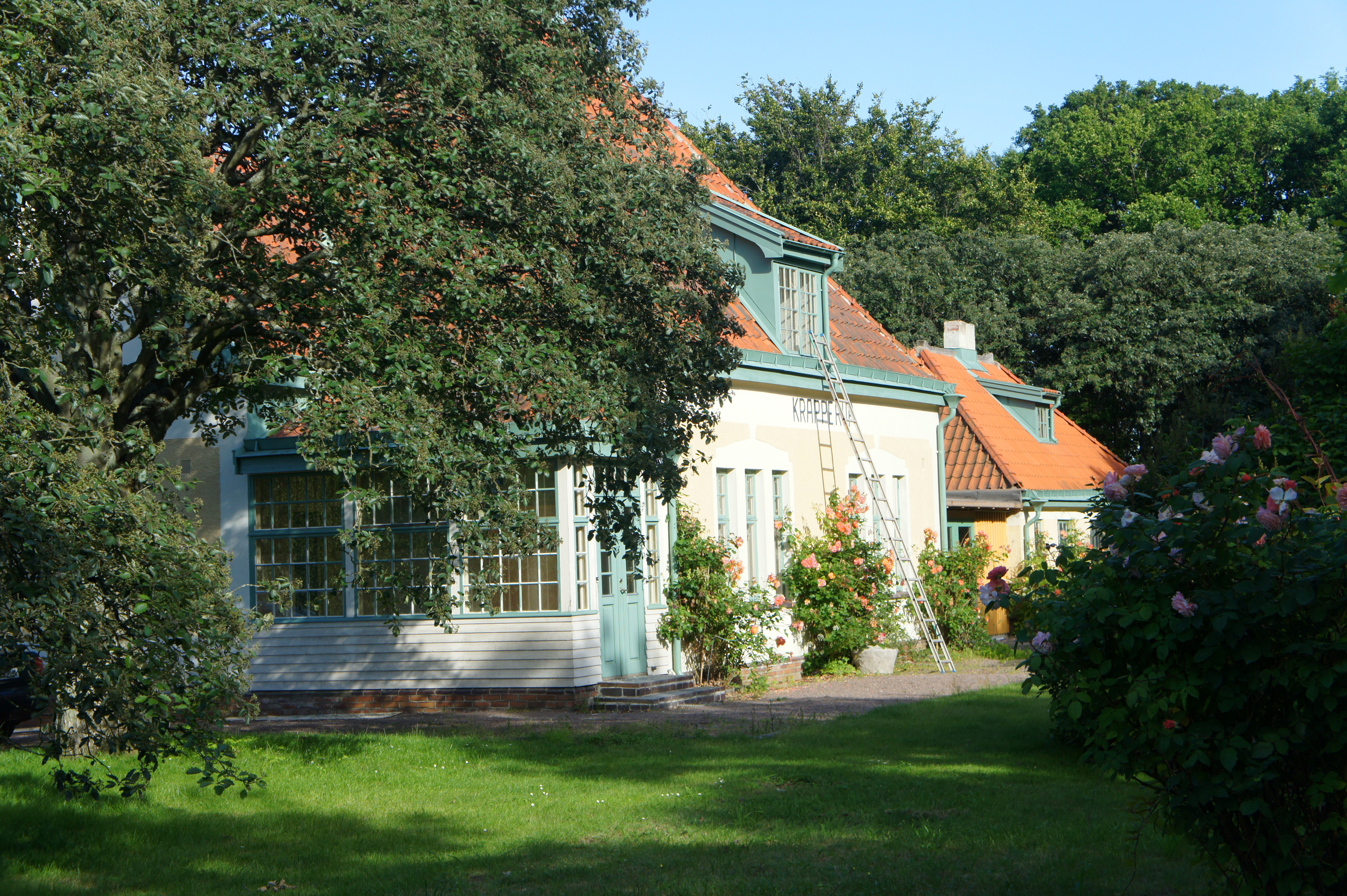 Krapperup railway station, Sweden